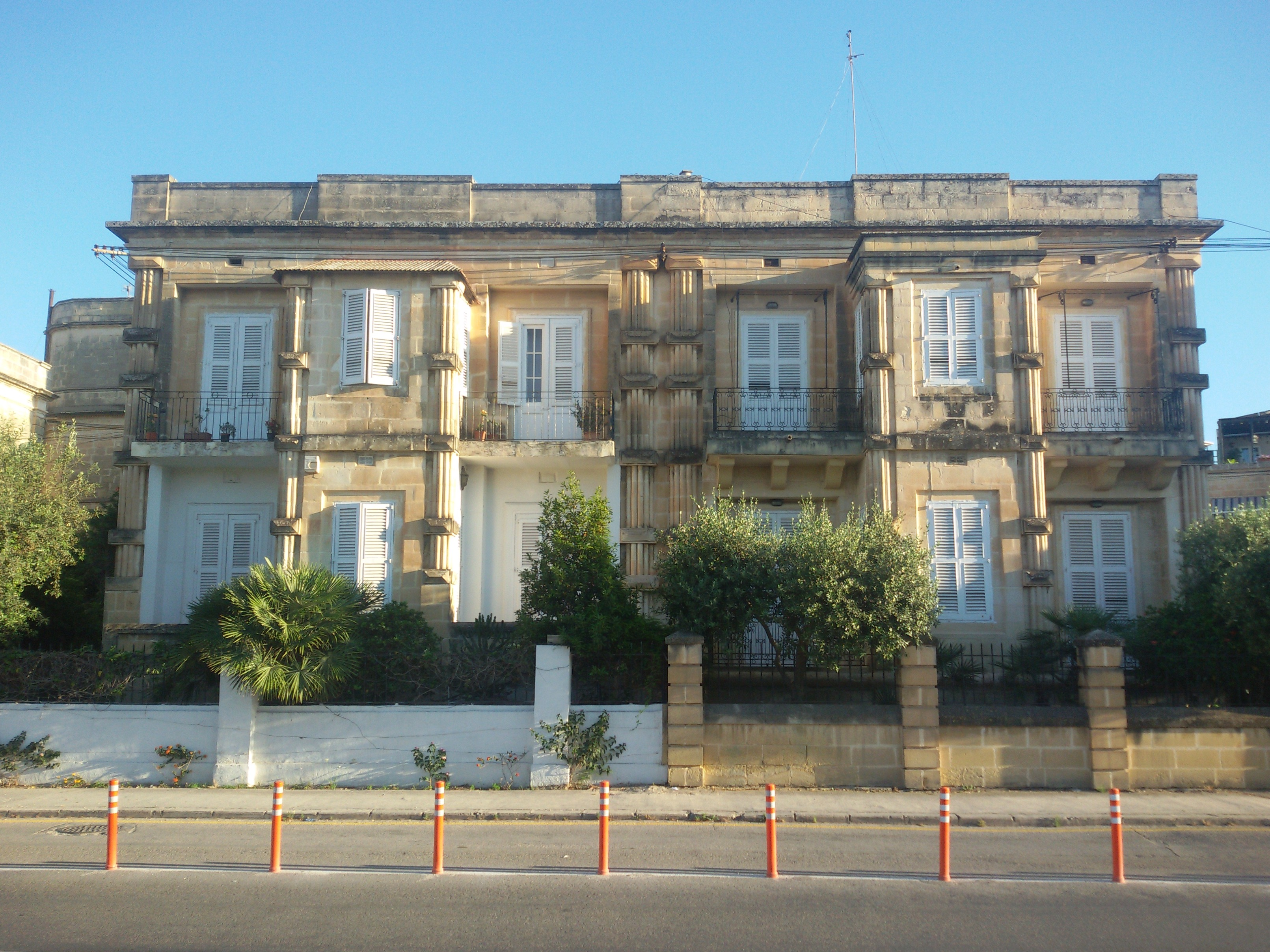 Villa Gloria, award winning architecture